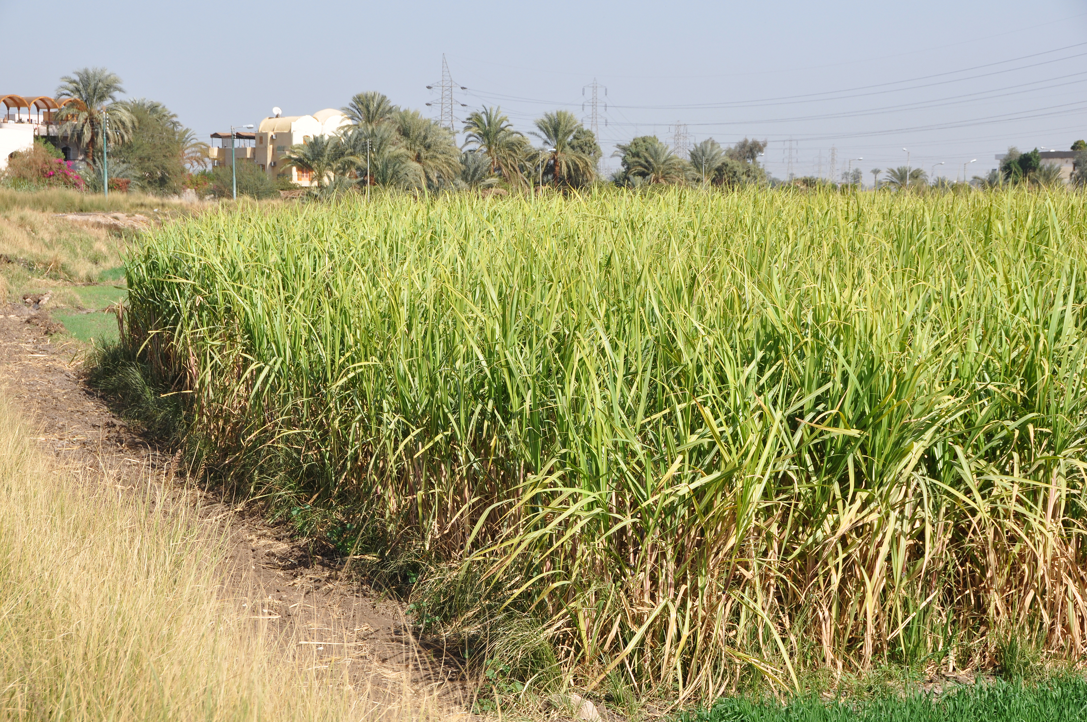 Sugar cane, growing in Qurna (West Nile Bank near Luxor, Egypt)